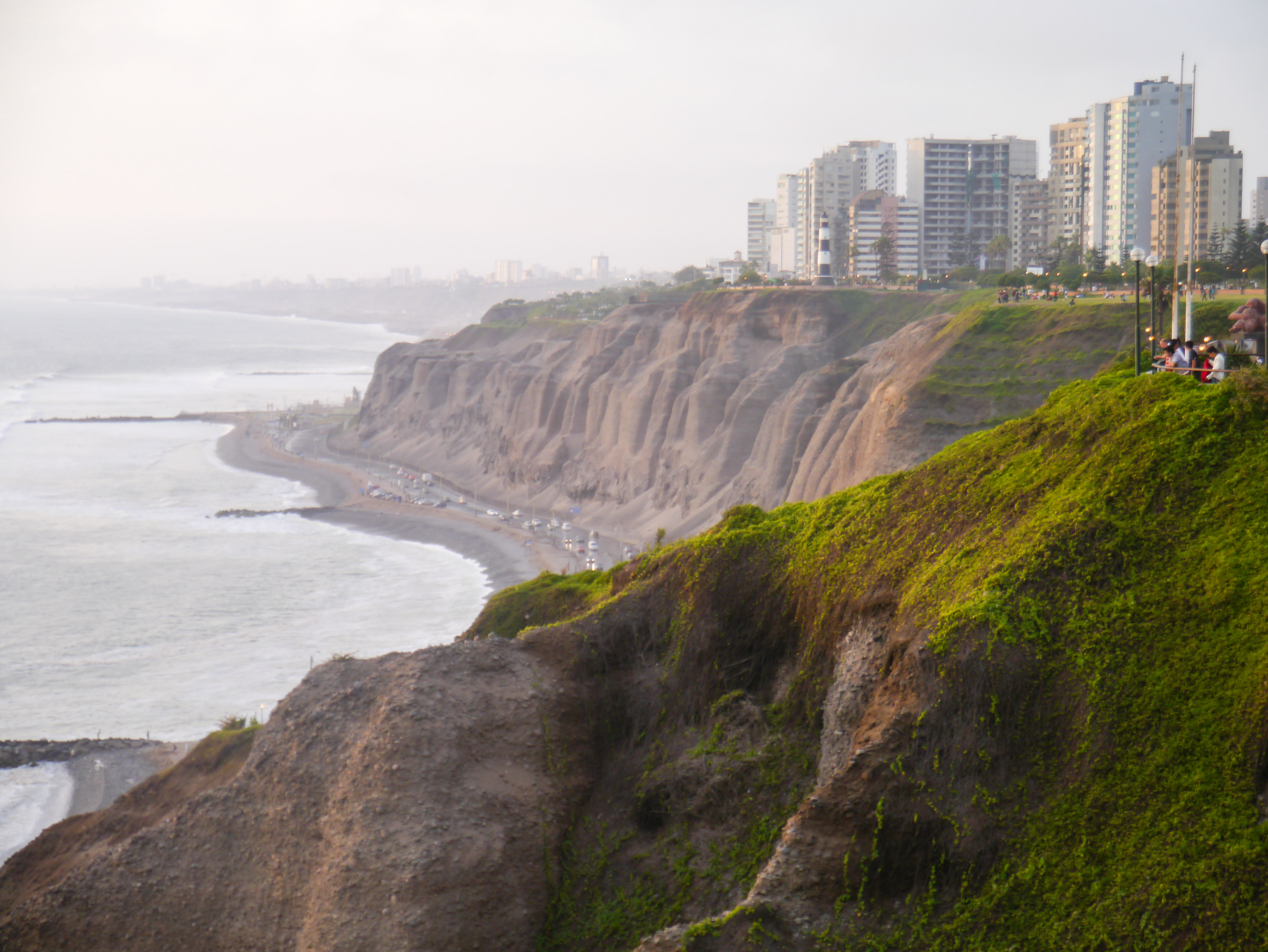 Panorama of the Costa Verde.